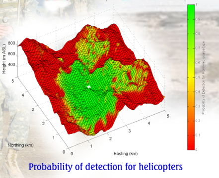 Acoustic model of probability for detecting an arriving helicopter.